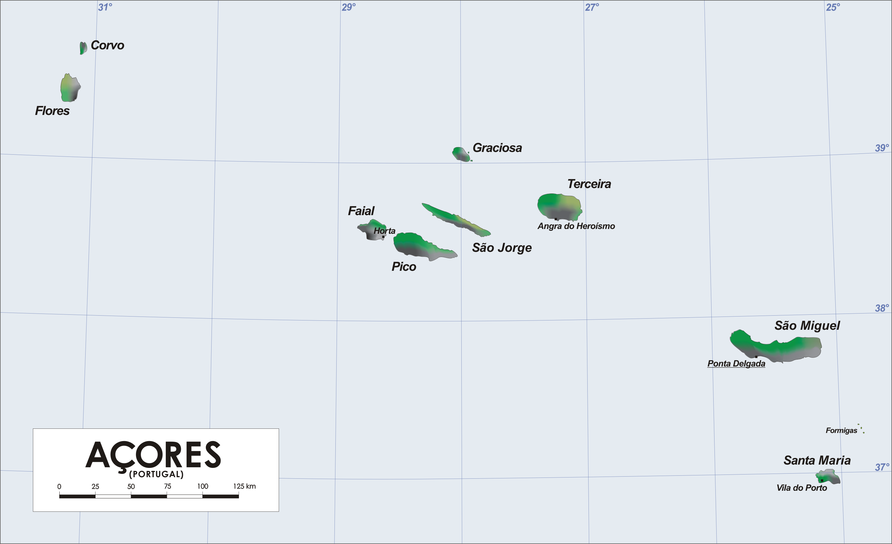 Map of Azores Islands (Portugal) drawn by varp